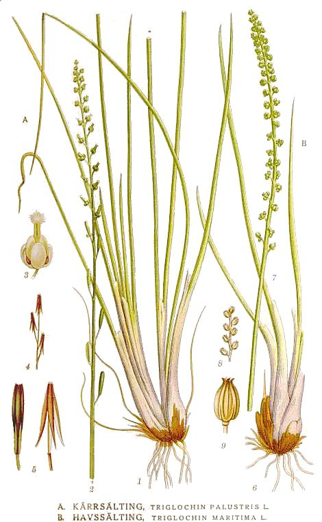 A. Triglochin palustre L. B.Triglochin maritimum L. Original Description A. Kärrsälting, Triglochin palustris L. B. Havssälting, Triglochin maritima L.